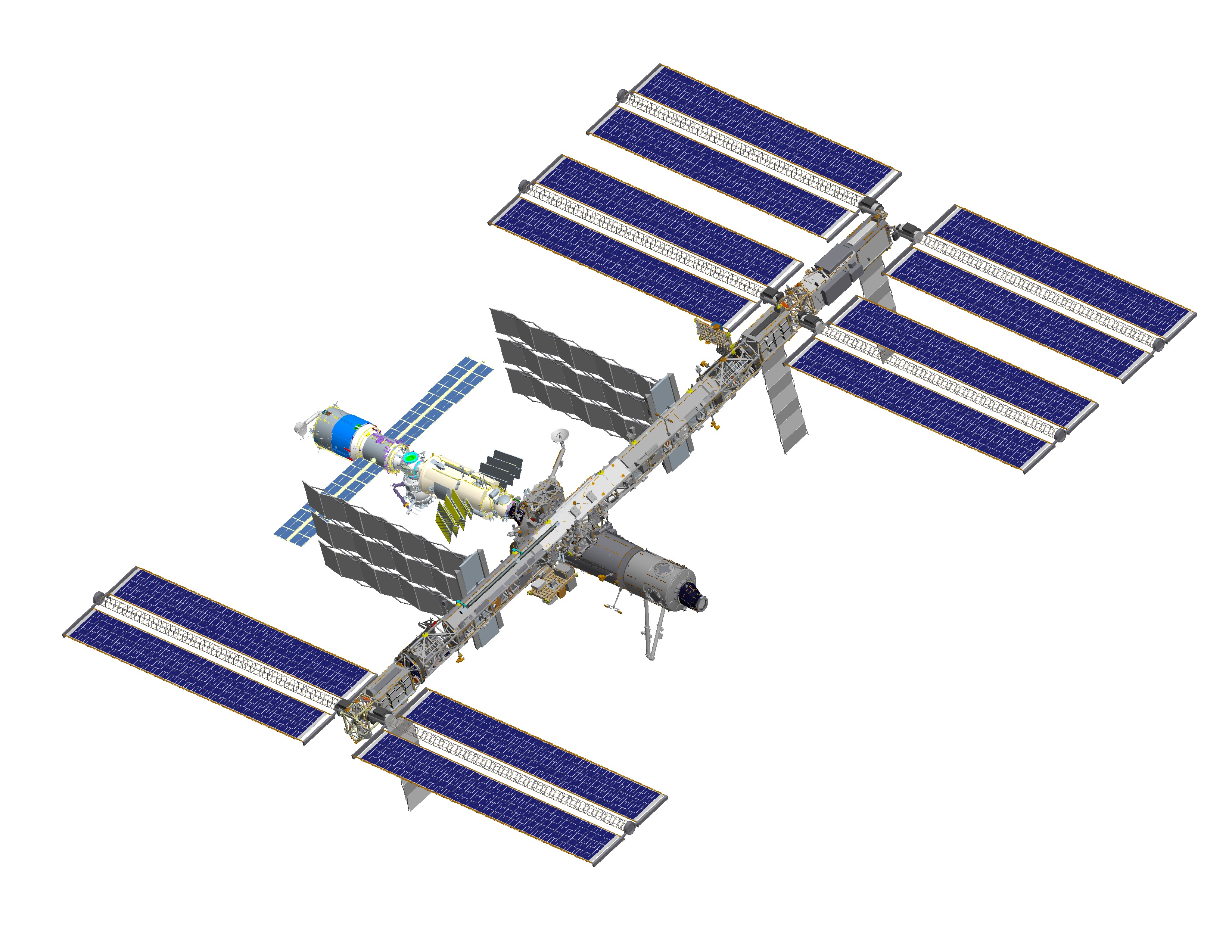 JSC2006-E-33310 (August 2006) --- Computer-generated artist's rendering of the International Space Station after flight STS-120/10A.